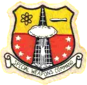 Emblem of the USAF Special Weapons Command